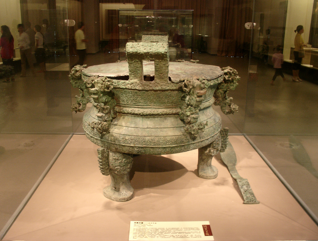 王子午鼎, a Chinese bronze tripod vessel from the Spring and Autumn Period (722-481 BC), located at the Hainan Provincial Museum.